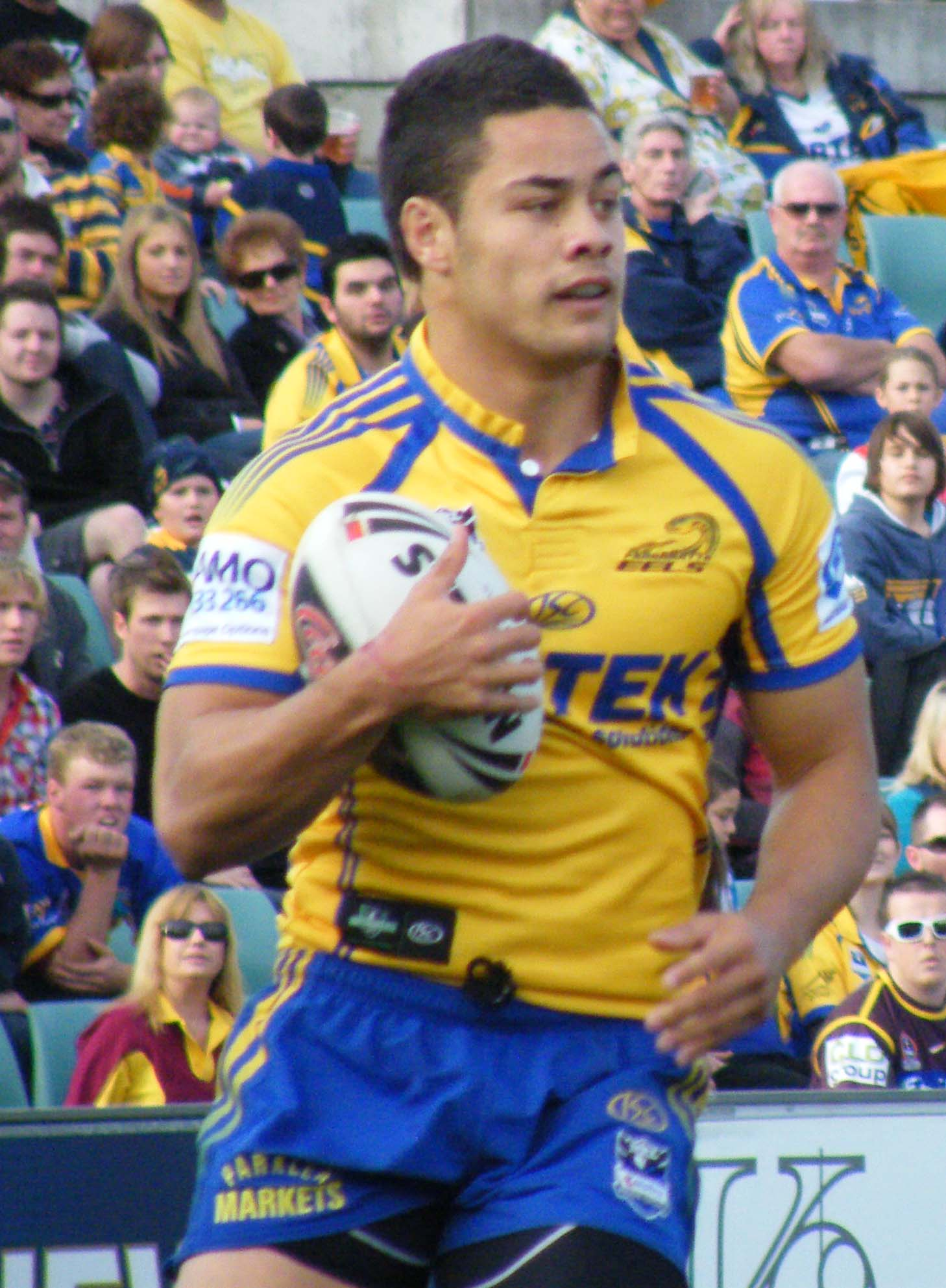 Jarryd Hayne of the Parramatta Eels RLFC